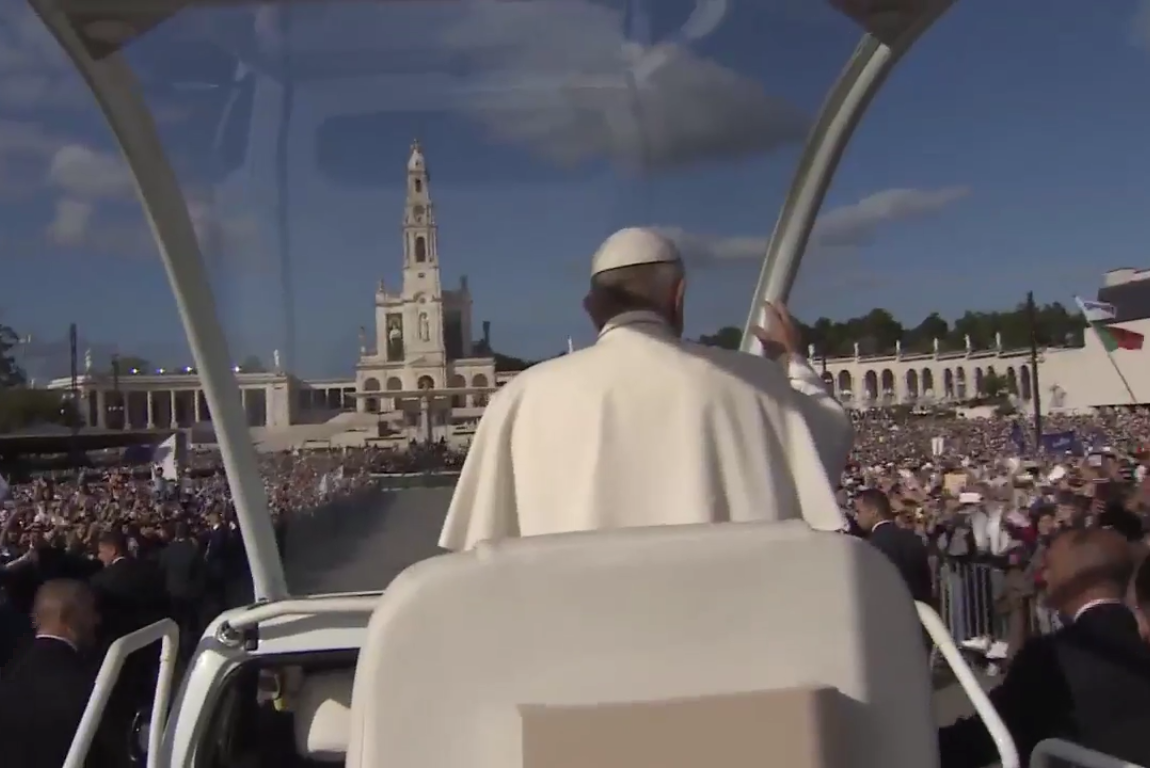 Pope Francis at the Sanctuary of Fátima, in Portugal, on 12 May 2017.